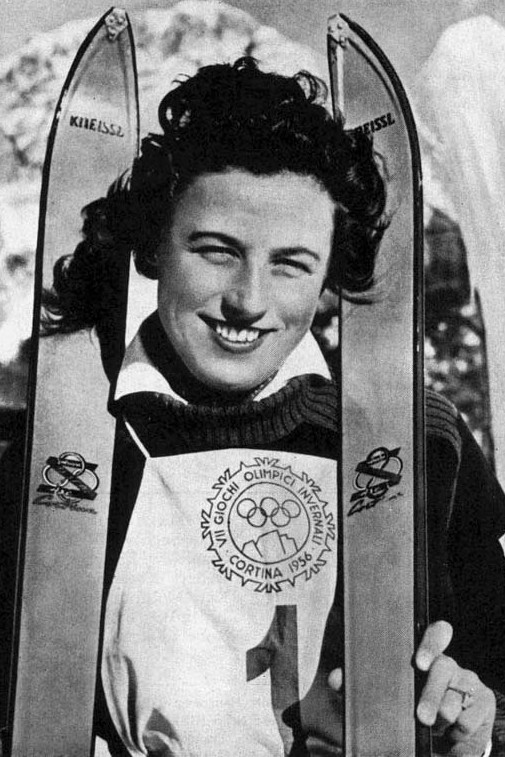 German alpine skier Rosa "Ossi" Reichert after the giant slalom win at the 1956 Winter Olympics in Cortina d'Ampezzo, Italy